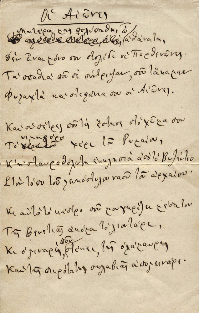 The handrwritten three first stanzas of the poem "Hoi aiones" written by the Greek poet Kostis Palamas (1859-1943).